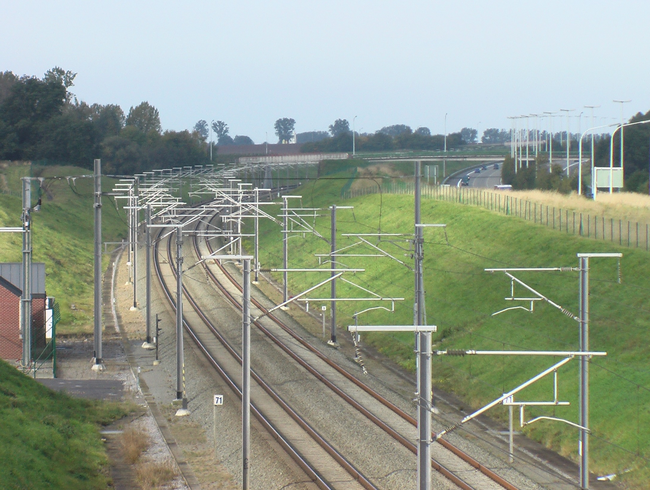 HSL 2 high speed rail line near Berloz, Belgium HSL 2 hogesnelheidslijn bij Berloz, België